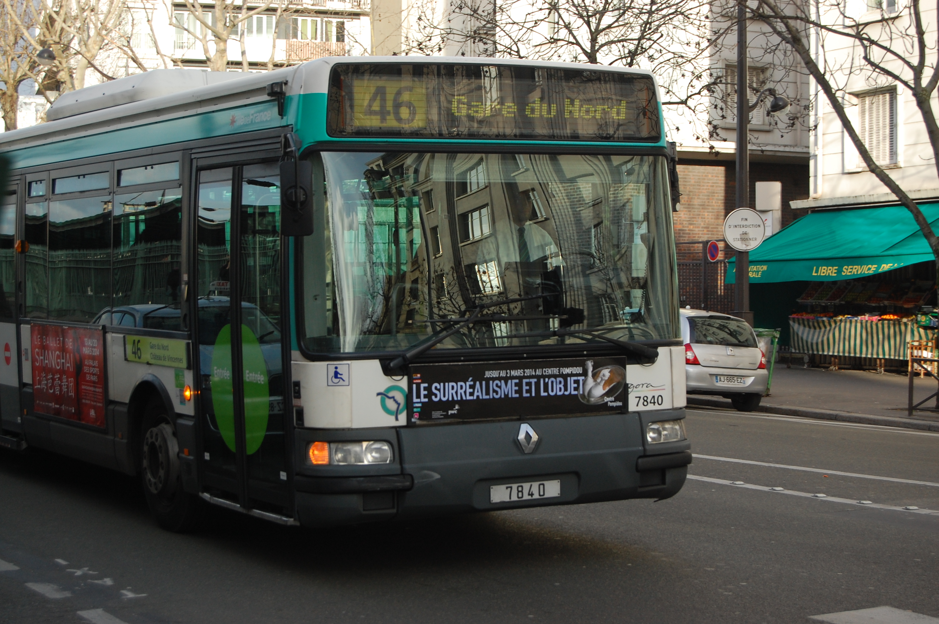 Bus, fleet number 7840, on service 46, on Rue du Faubourg Saint-Martin, Paris, outside Gare de l'Est.